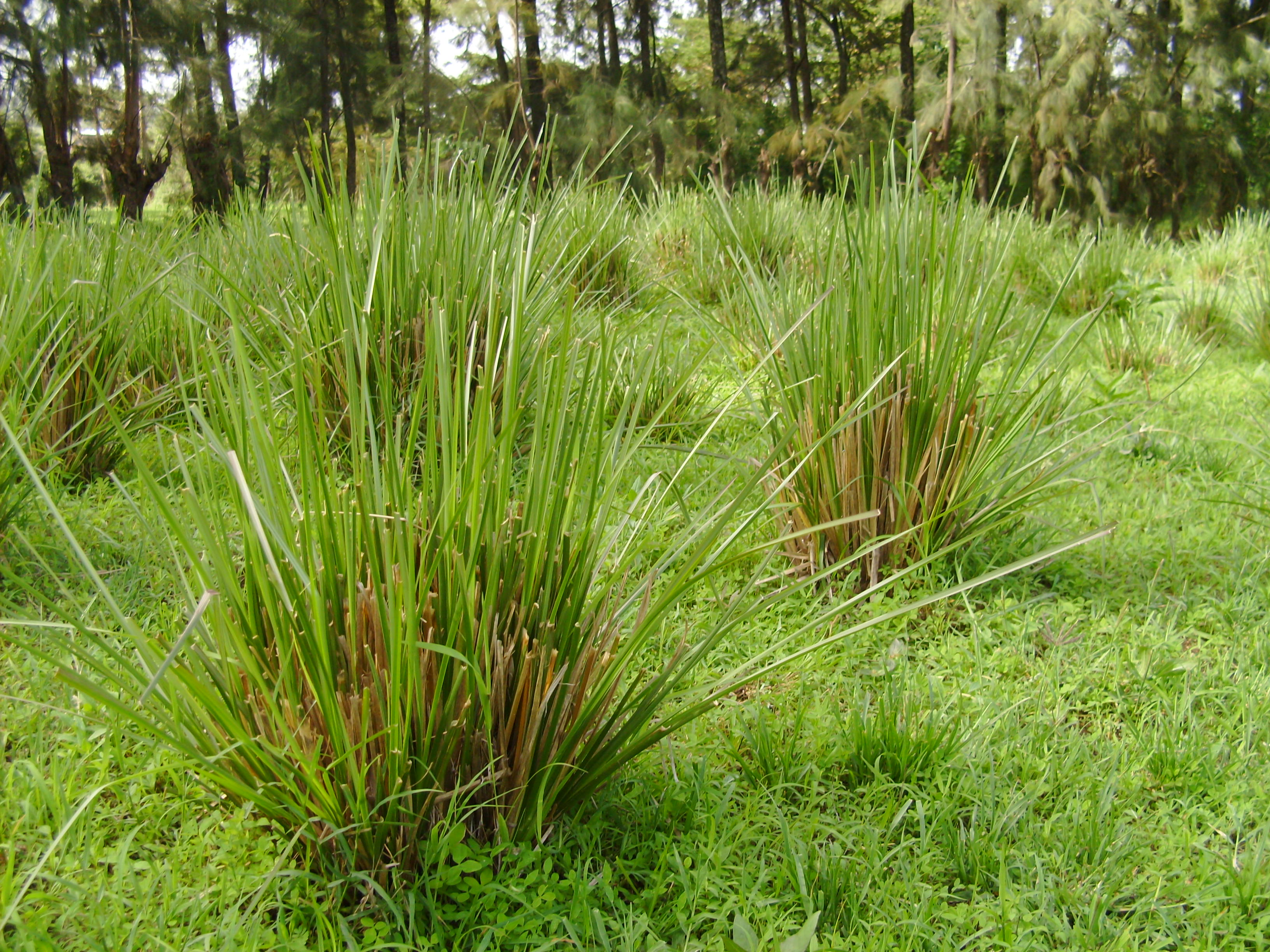 Vetiver Grass in Ethiopia 2008